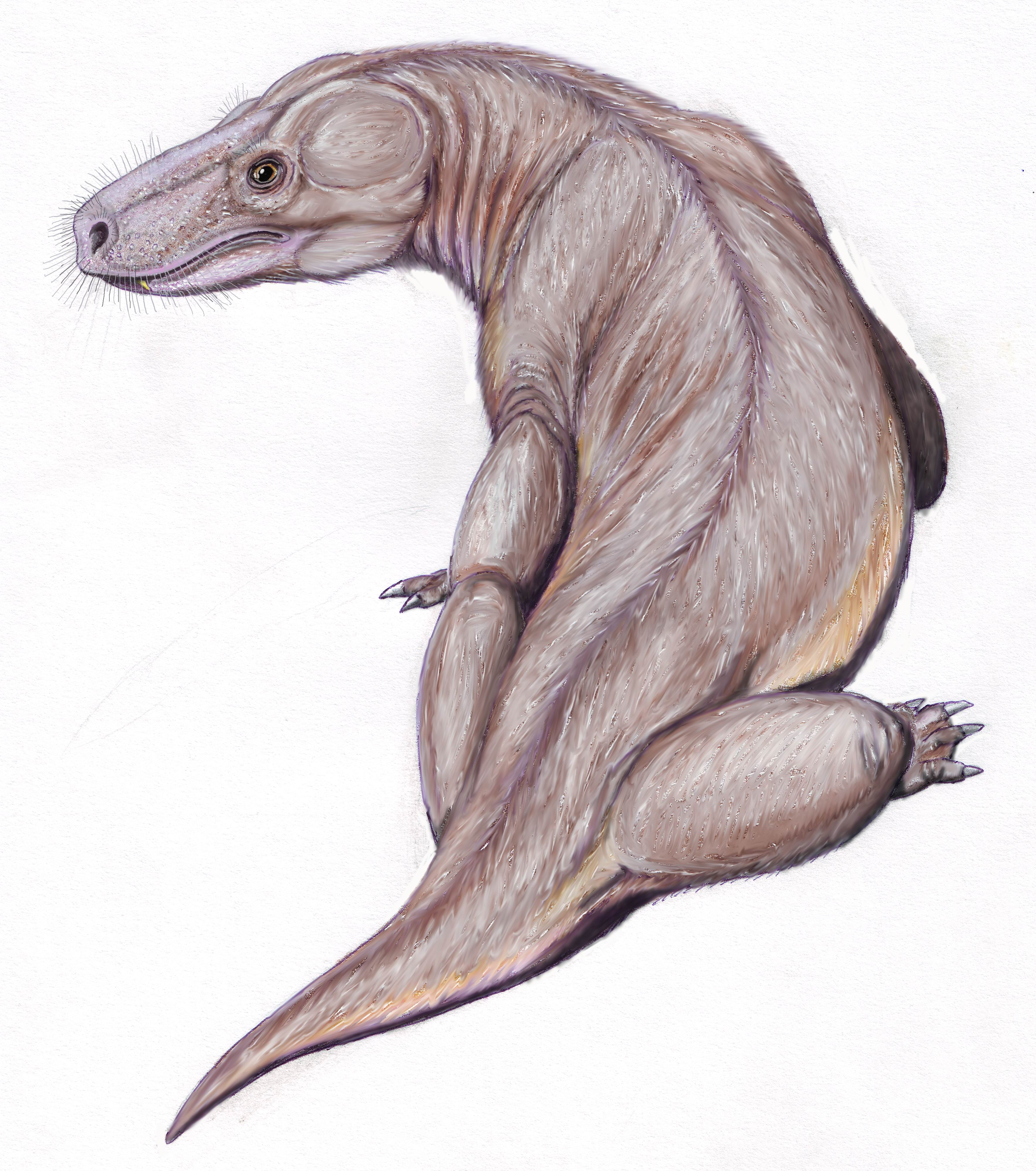 Life reconstruction of Annatherapsidus petri - probably semiaquatic therocephalian from Late Permian of Sokolki (North Dvina River near Kotlas).